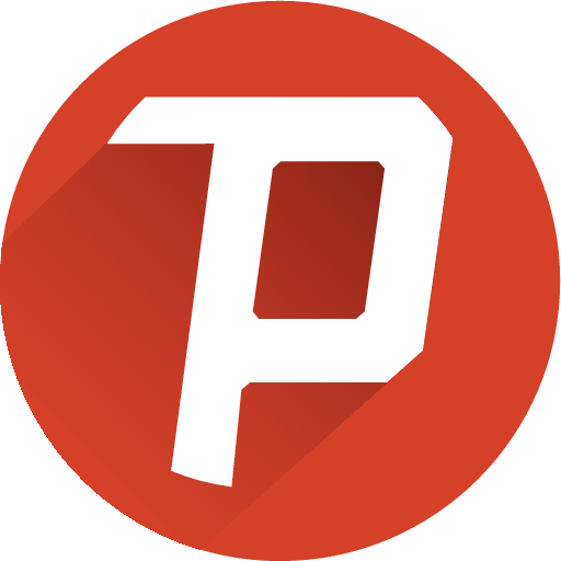 Psiphon 3 logo